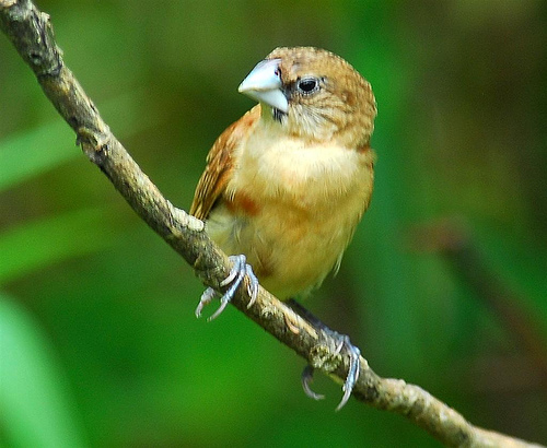 Juvenile Black-headed Munia Lonchura atricapilla, female. Upper Peirce Reservoir, Singapore.